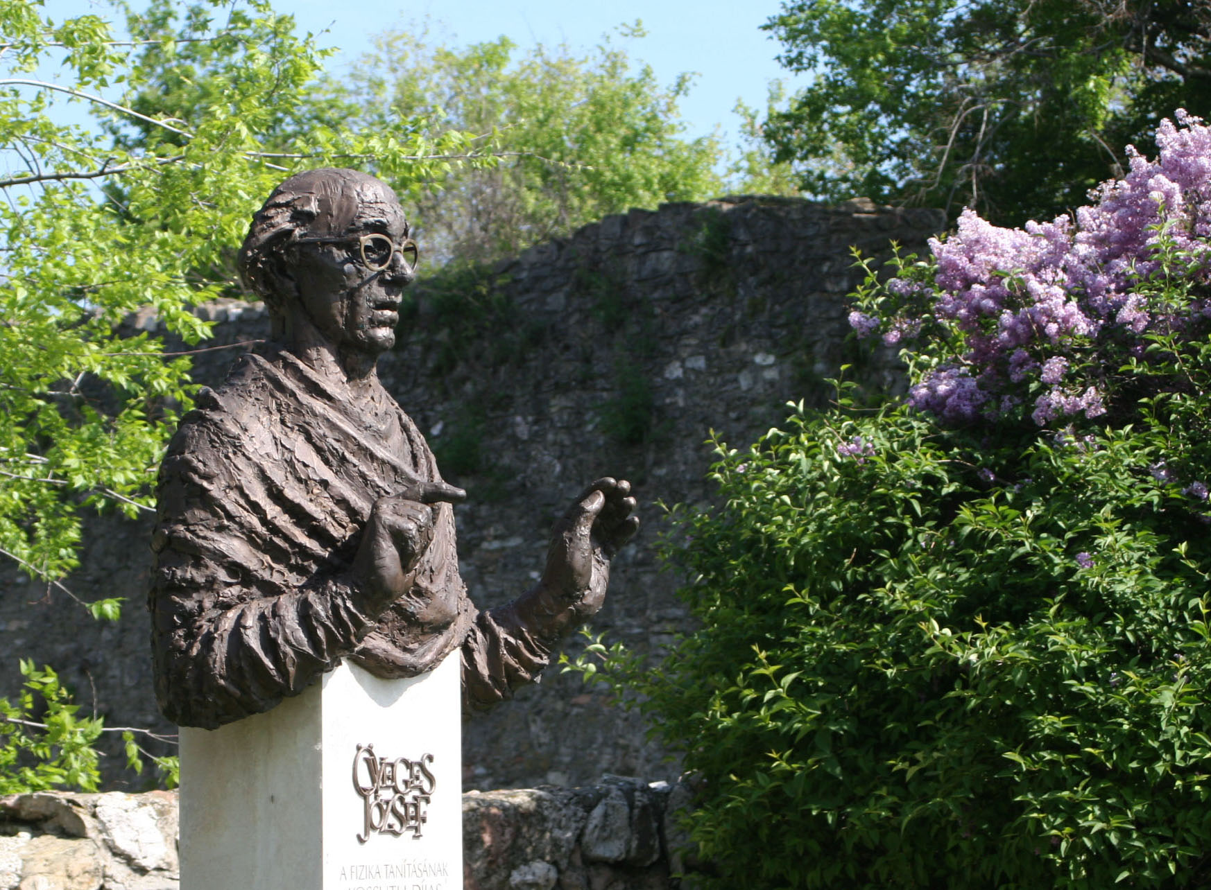 Location: Hungary